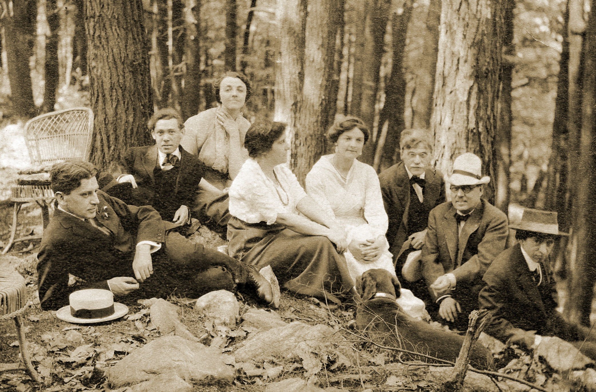 Group of artists seated on the ground, among the trees. Identification on verso (handwritten): Left to right - Paul Haviland, Abraham Walkowitz, Katharine N. Rhoades, Emily Stieglitz (Mrs. Alfred Stieglitz), Agnes Ernst (Mrs. Eugene Meyer), Alfred Stieglitz, J. B. Kerfoot, John Marin. Property of Walkowitz family. Published in: Archives of American Art Journal v. 6, no. 2, p. 15; v. 40, no. 3-4, p. 36. This is a retouched picture, which means that it has been digitally altered from its original version. Modifications: restored. The original can be viewed here: Artists at Mount Kisco 1912.jpg. Modifications made by PawełMM.